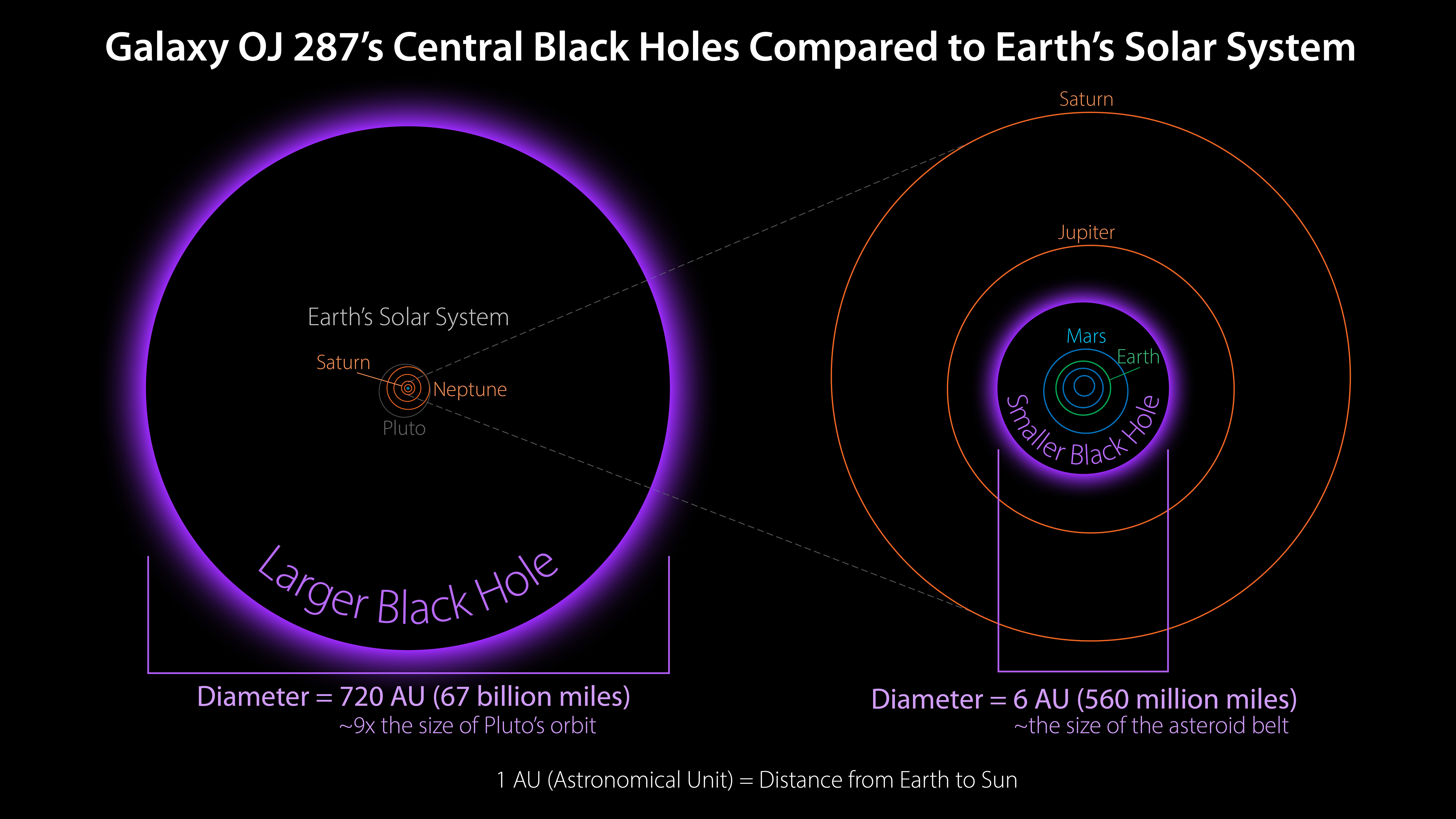 Sizes of Black Holes in Galaxy OJ 287 Relative to the Solar System - April 29, 2020 Two supermassive black holes are locked in an orbital dance at the core of the distant galaxy OJ 287. This diagram shows their sizes relative to the solar system. The larger one, with about 18 billion times the mass of our sun (right), would encompass all the planets in the solar system with room to spare. The smaller one is about 150 million times the mass of our sun (left), which would be large enough to swallow up everything out to the asteroid belt, just inside the orbit of Jupiter.